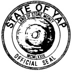 State Seal of Yap, which is a state within the Federated States of Micronesia